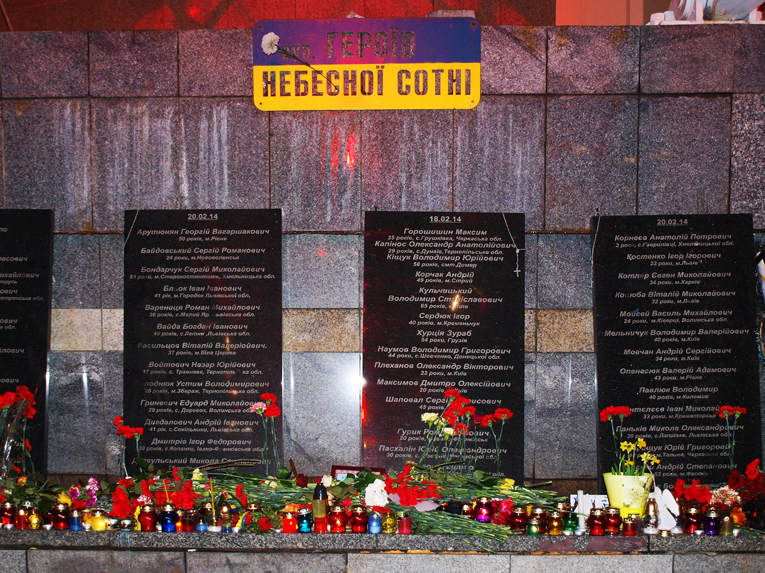 Commemoration of Euromaidan victims. Heaven's Centurion street in Kyiv (Ukraine)